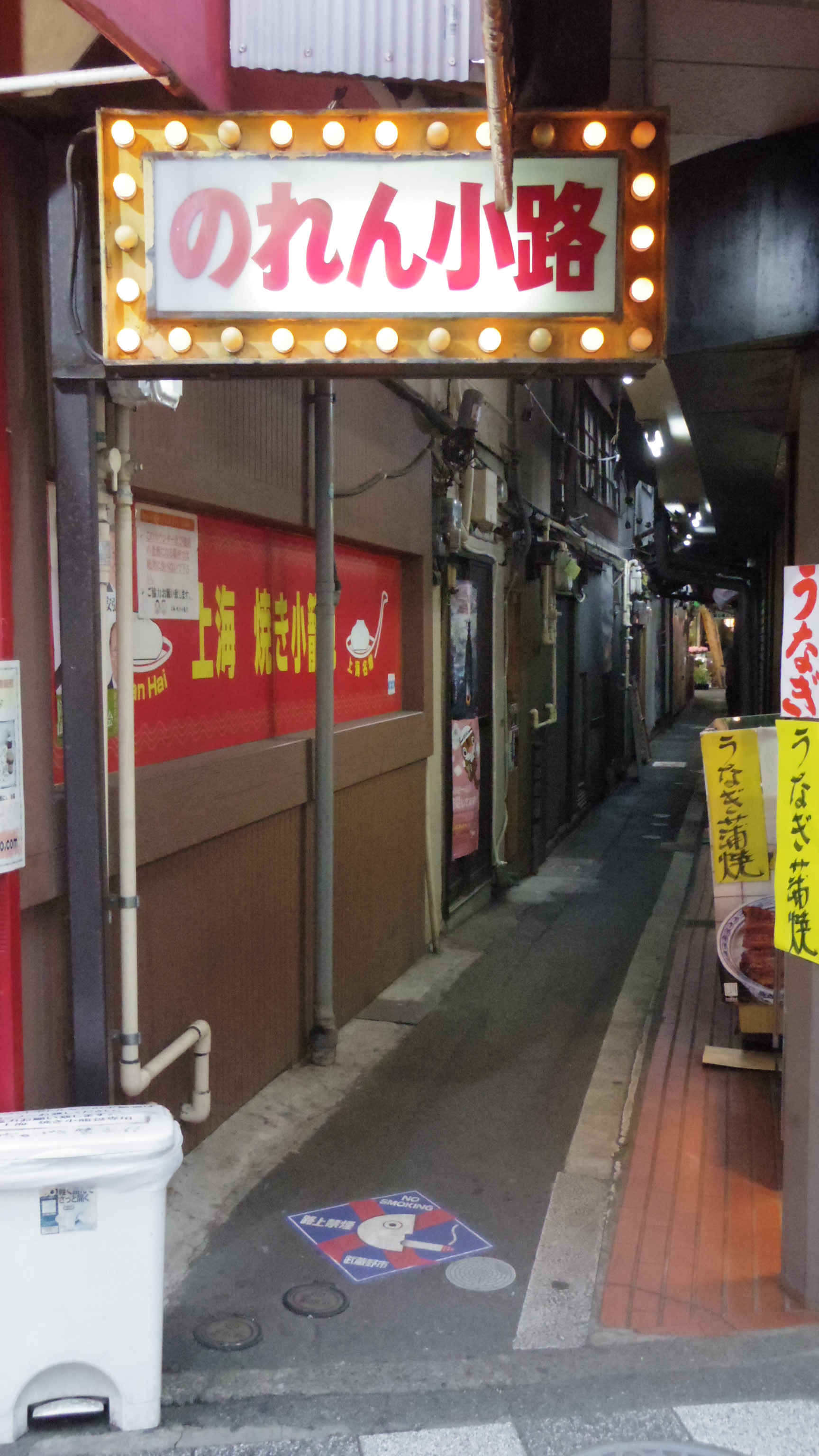 Harmonica side street by Kichijoji, Tokyo.